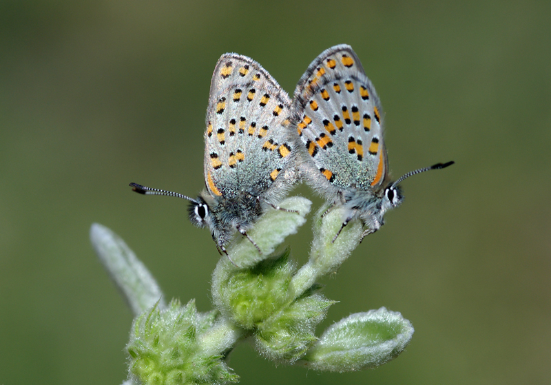 Wing underside view of a couple "Nogel's hairstreak" (Tomares nogelii)